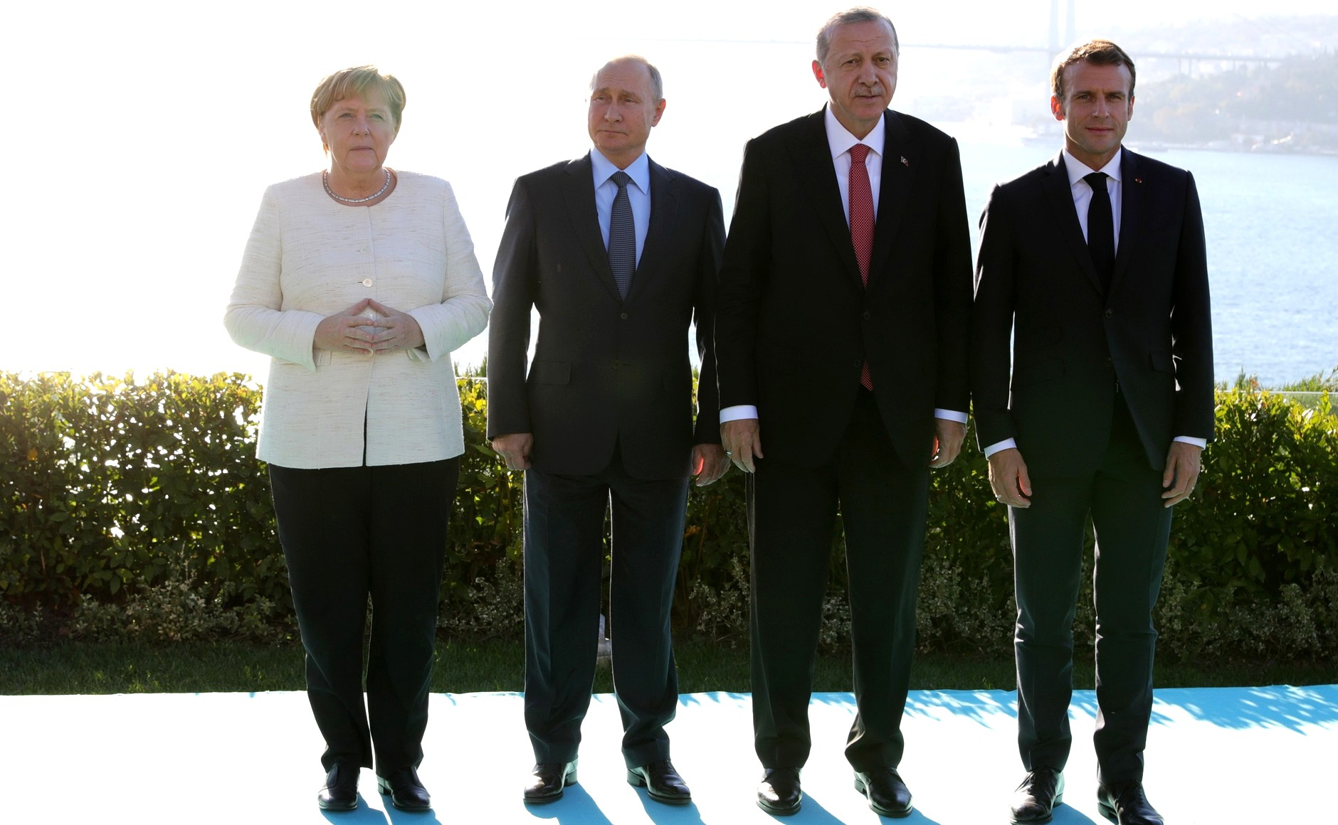 Before the meeting of the leaders of Russia, Turkey, Germany and France. From left: Federal Chancellor of Germany Angela Merkel, Vladimir Putin, President of Turkey Recep Tayyip Erdogan and President of France Emmanuel Macron.